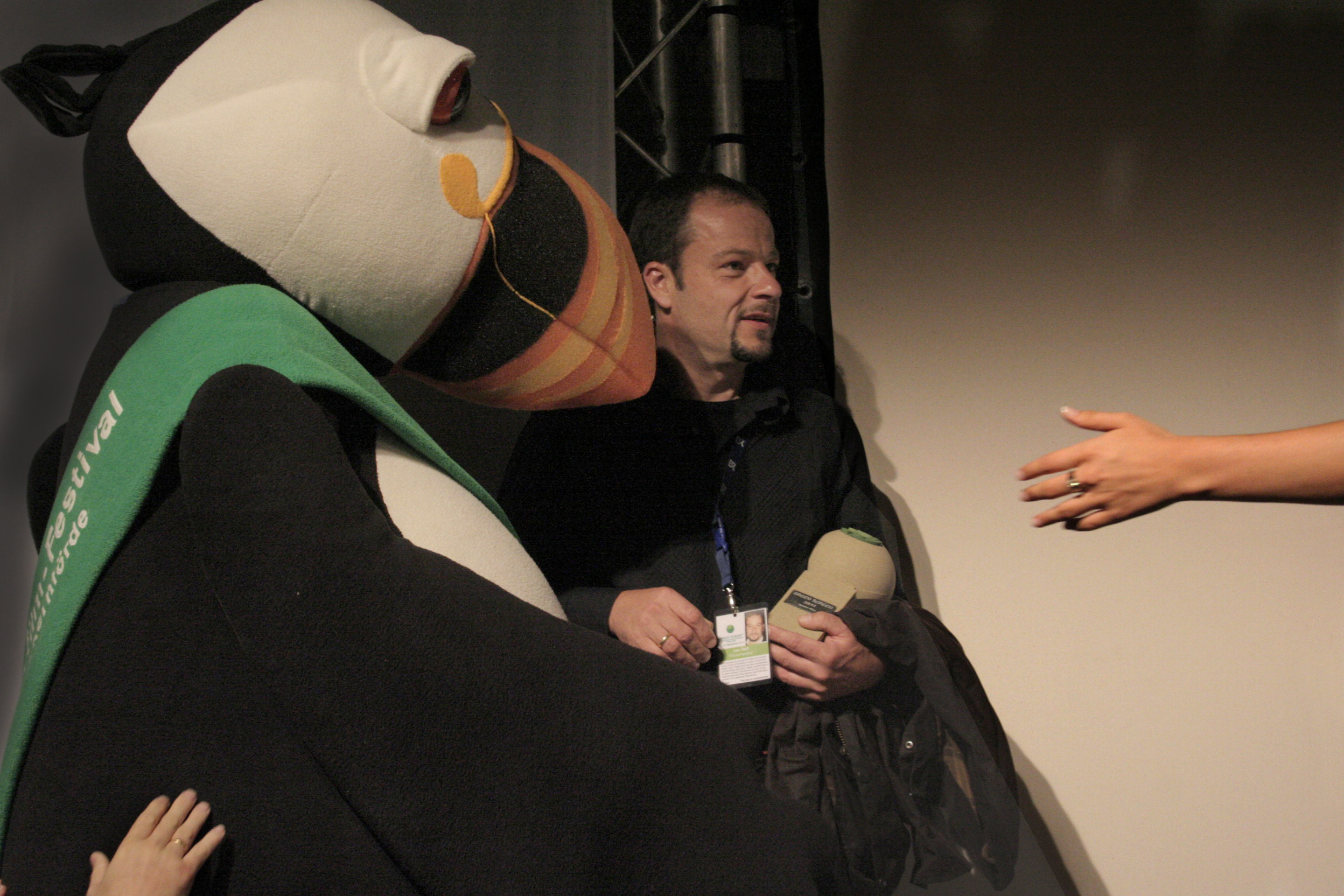 Jan Haft at the Wildlife Filmfestival Green Screen, winner of the Award Best film 2011